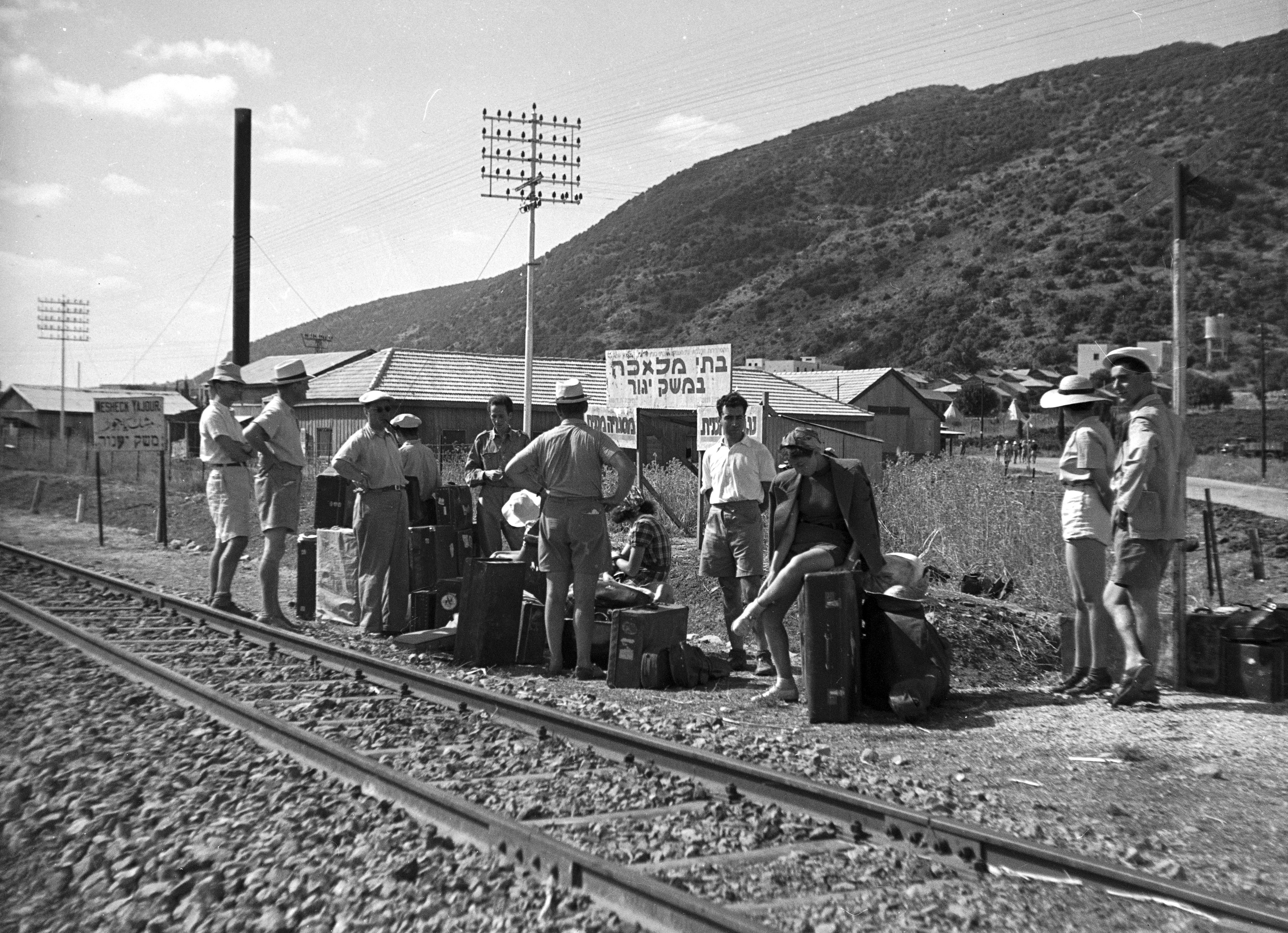 Passengers at Yagur Jezreel Valley railway) station